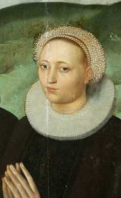 Anna Nissen (born 31 Dec 1595 at Hajstrupgaard, died 13 Fed 1654 at Oldemorstoft)